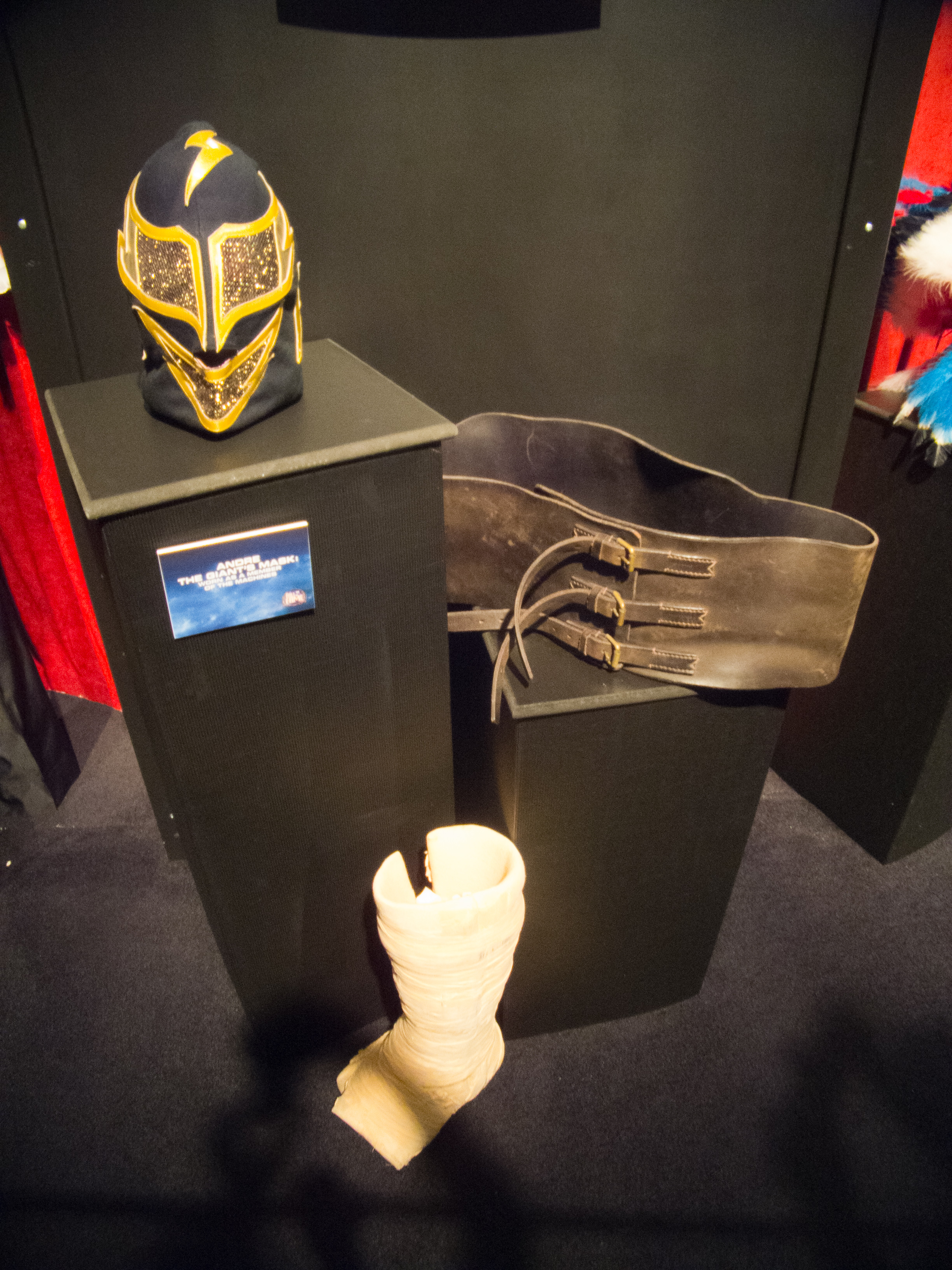 WWE Fan Axxess - Classic Memorabilia/Ring Gear